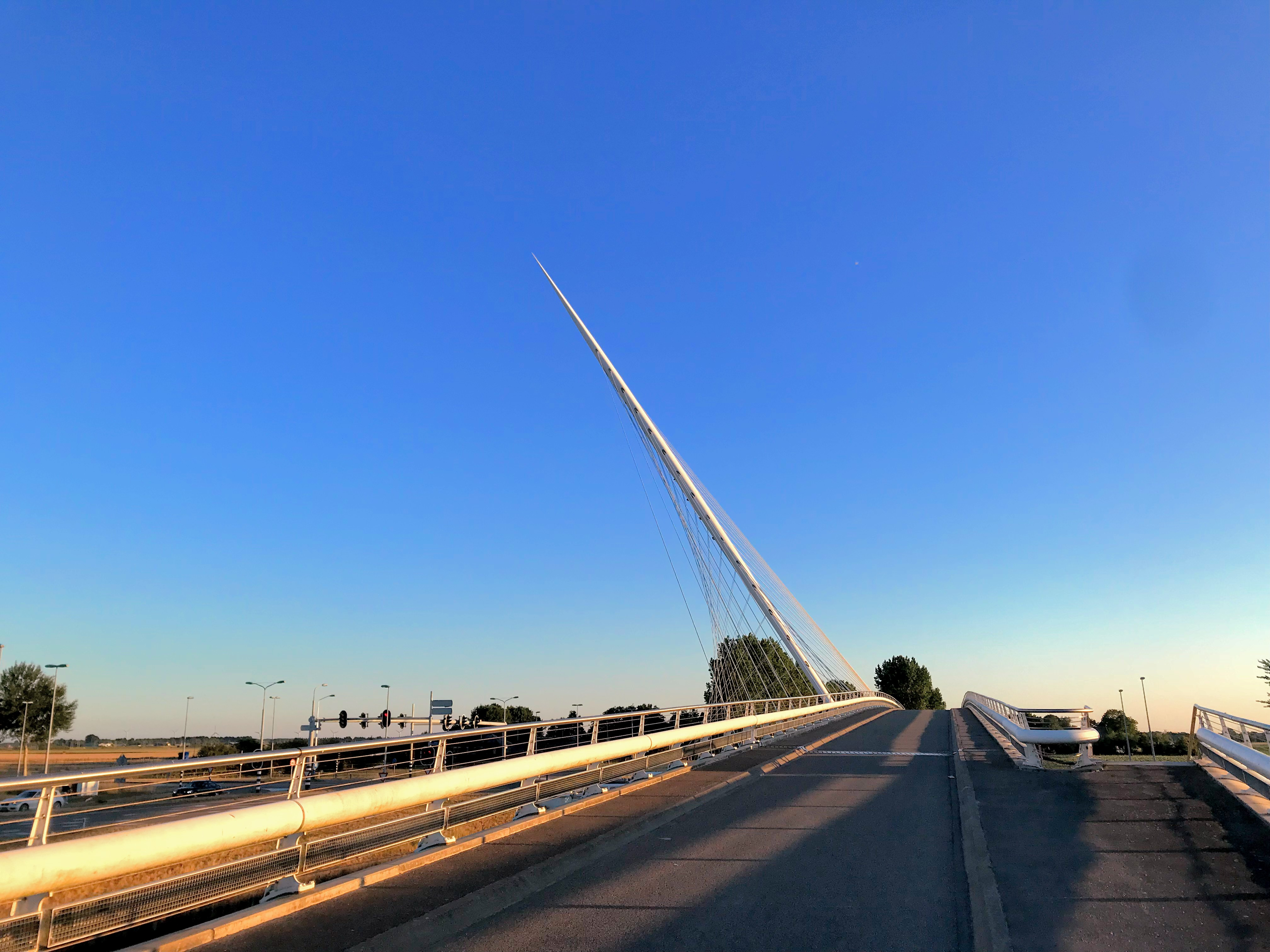 Calatrava brug Hoofddorp Nieuw-Vennep